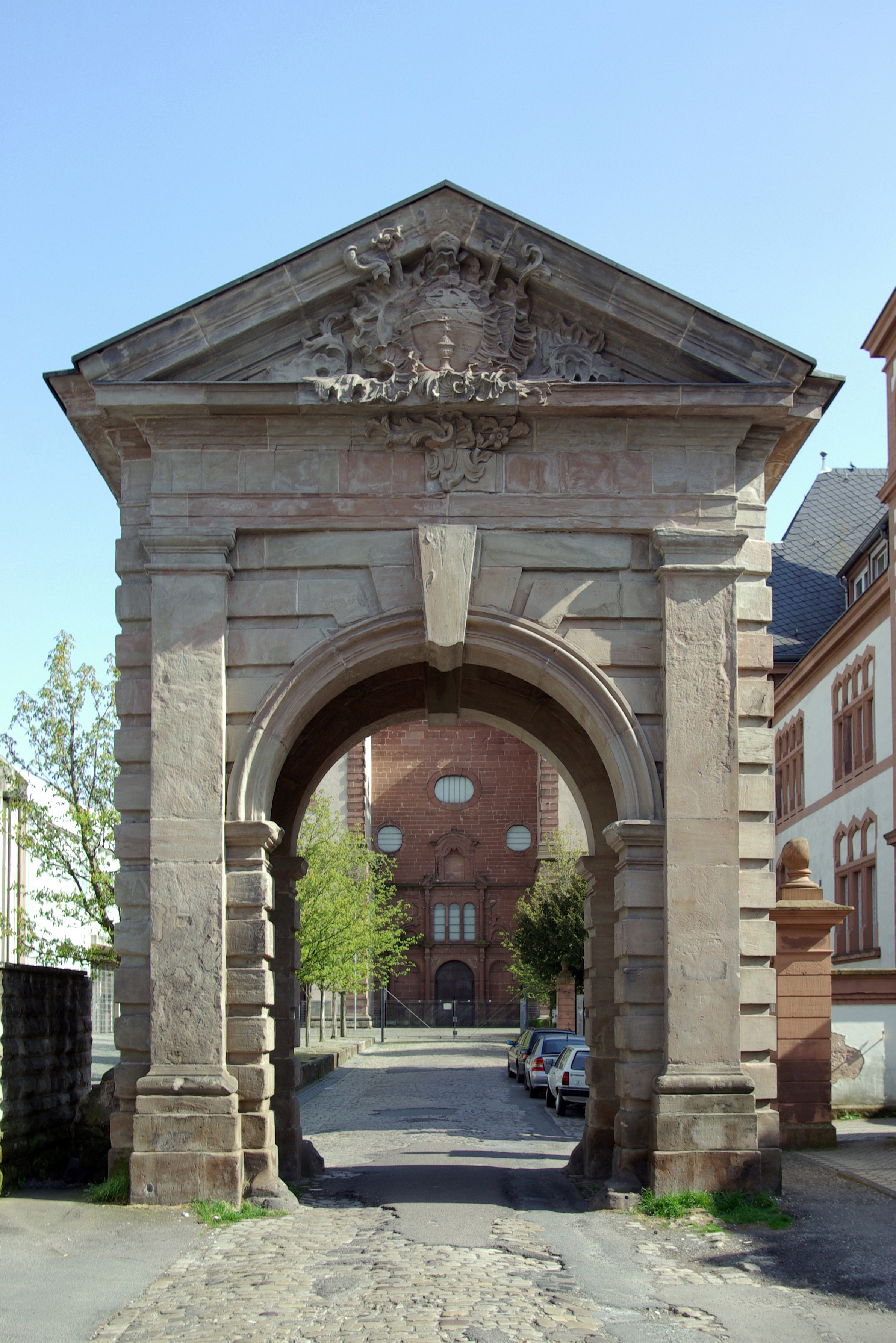 Portal of former St. Maximin's Abbey in the German town Trier